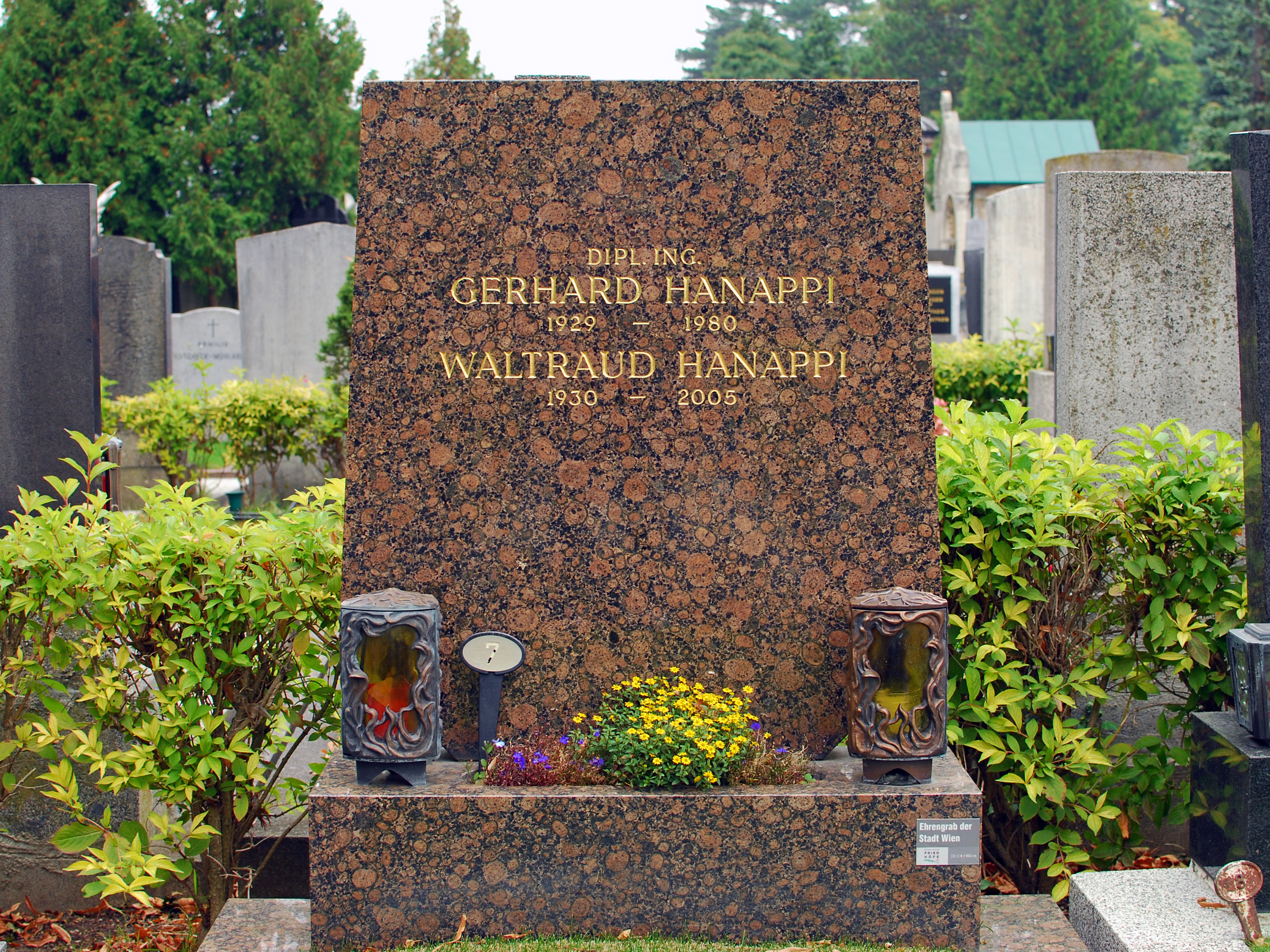 Grav Gerhard Hanappi